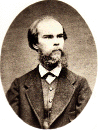 Photo of french poet Paul Verlaine